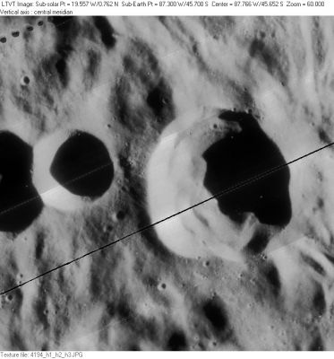 LO-IV-194H Catalán is to the right of center. To its west is 14-km Catalán B and (partially visible) 21-km Catalán A.